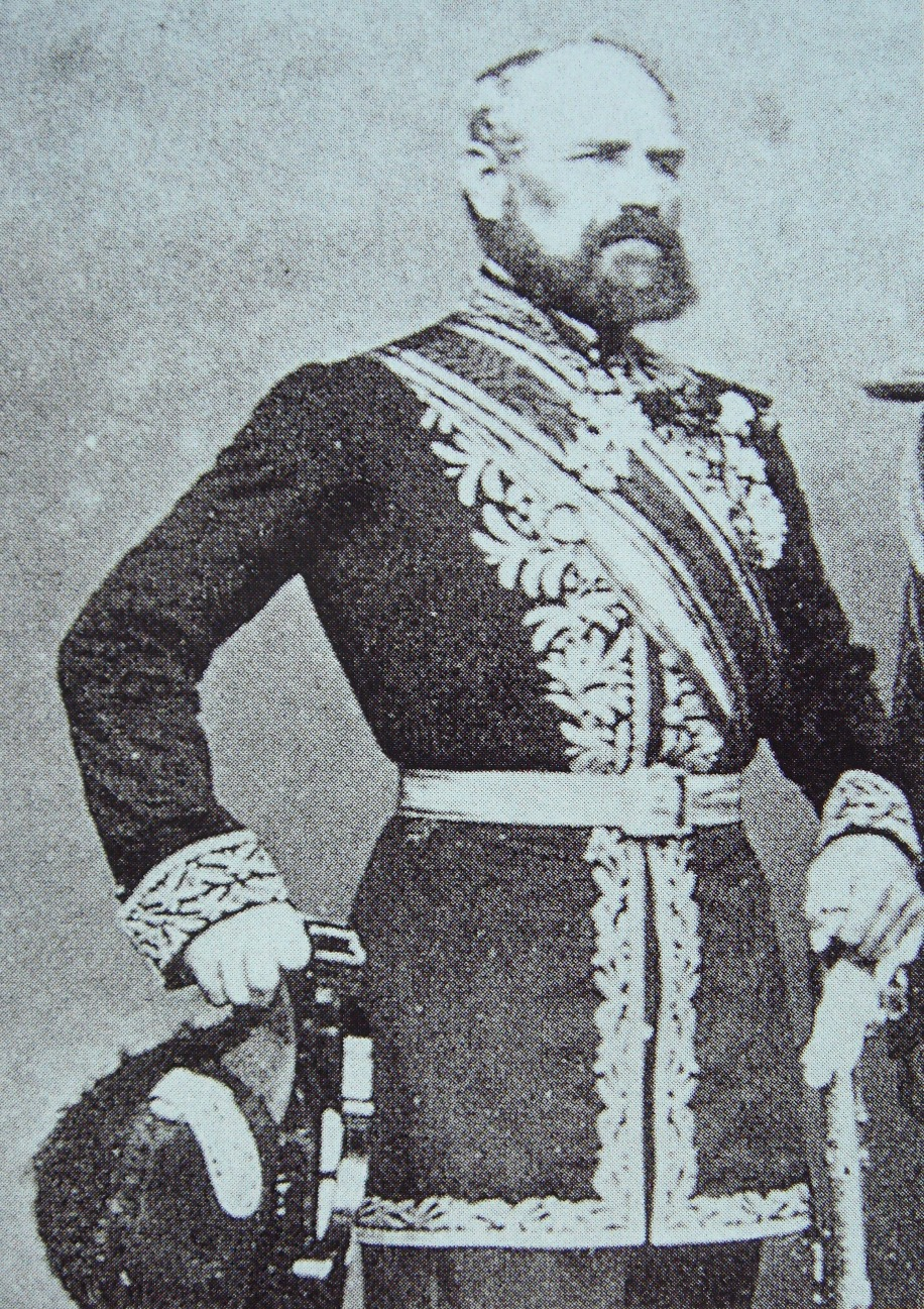 Leon Roches, second French representative to Japan, circa 1865